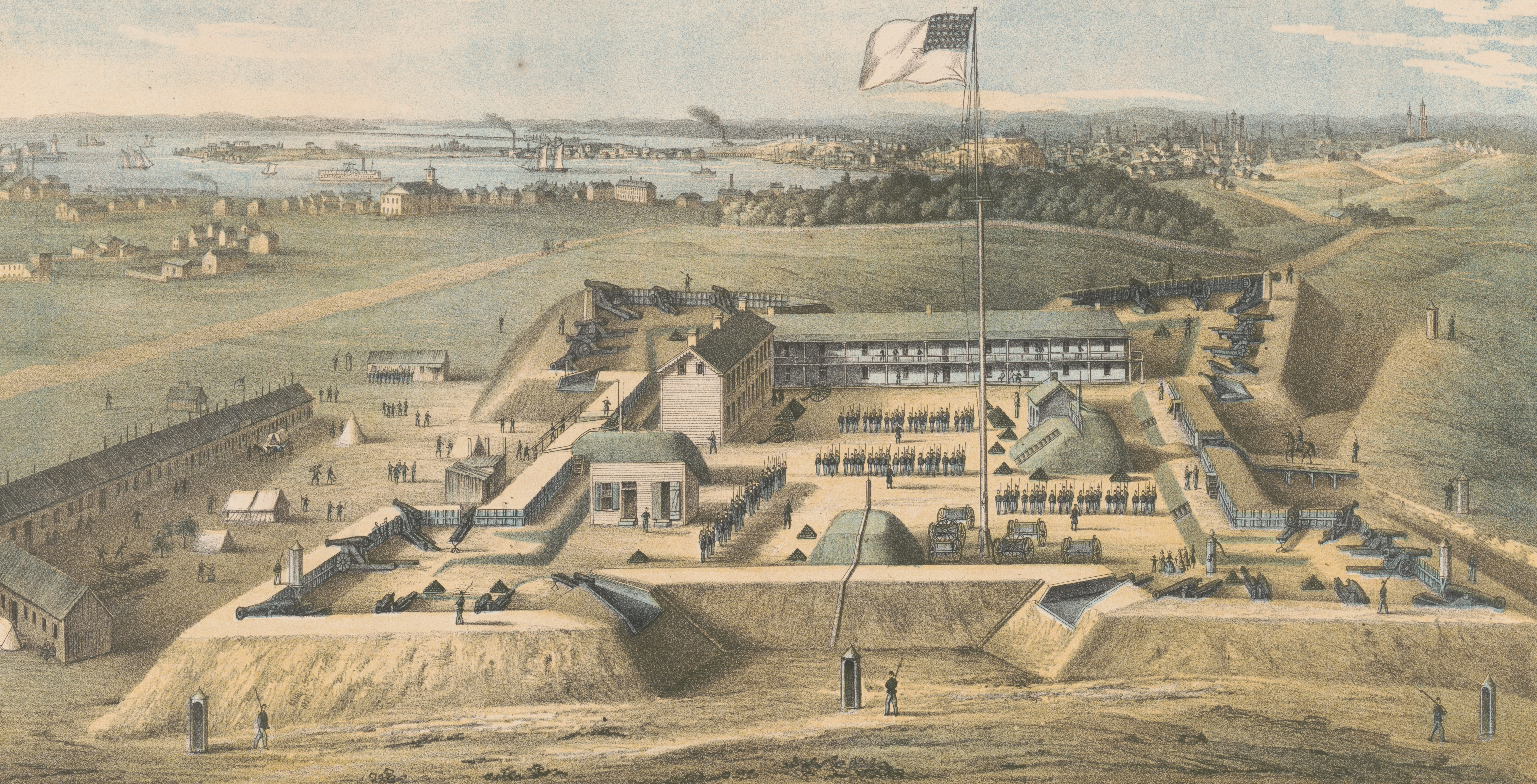 Title: Fort Marshall Baltimore, Md Fifth Regiment Artillery N.Y.V. Abstract/medium: 1 print.